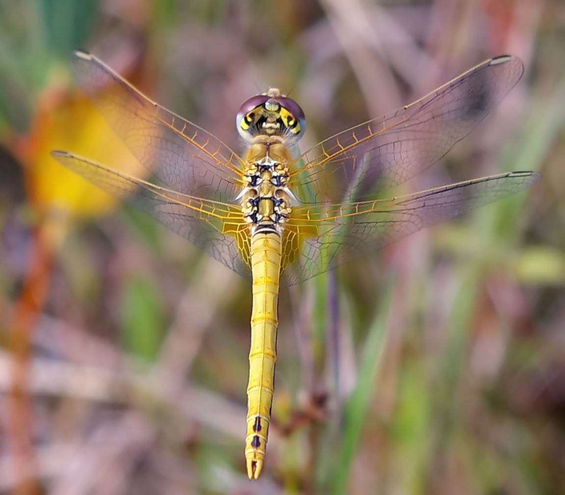 Juvenile (teneral) male Red-veined darter dragonfly (Sympetrum fonscolombii). Young females look nearly the same, but note the long appendices at the abdomen tip. Adult males become red-coloured at those parts which are yellow here (abdomen, wing veins).